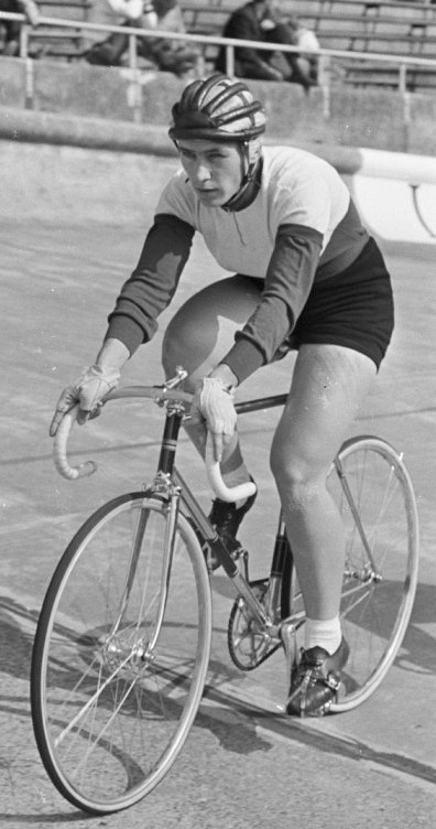 Irina Kirichenko; World Championships in Amsterdam